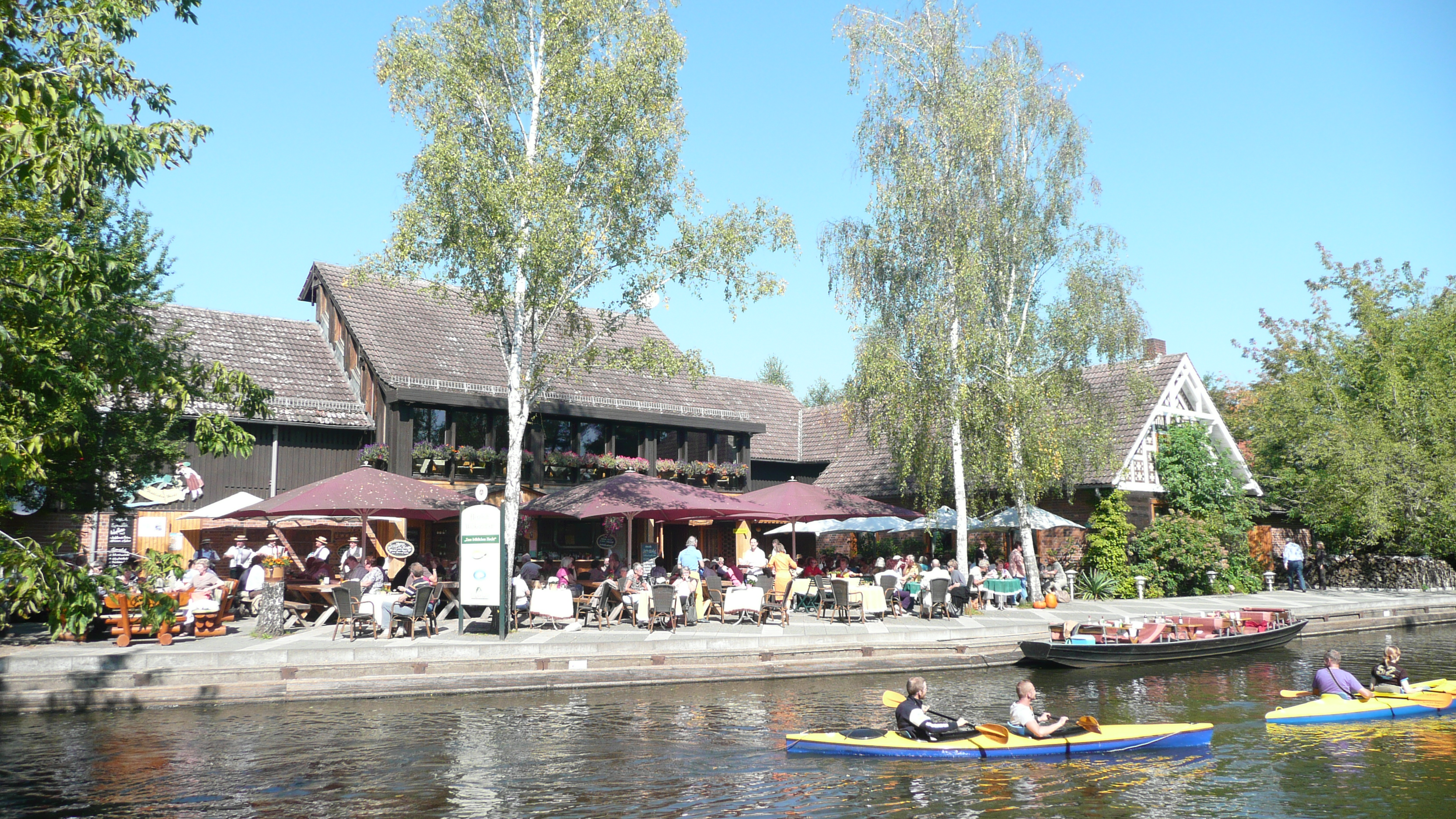 Restaurant in Lehde